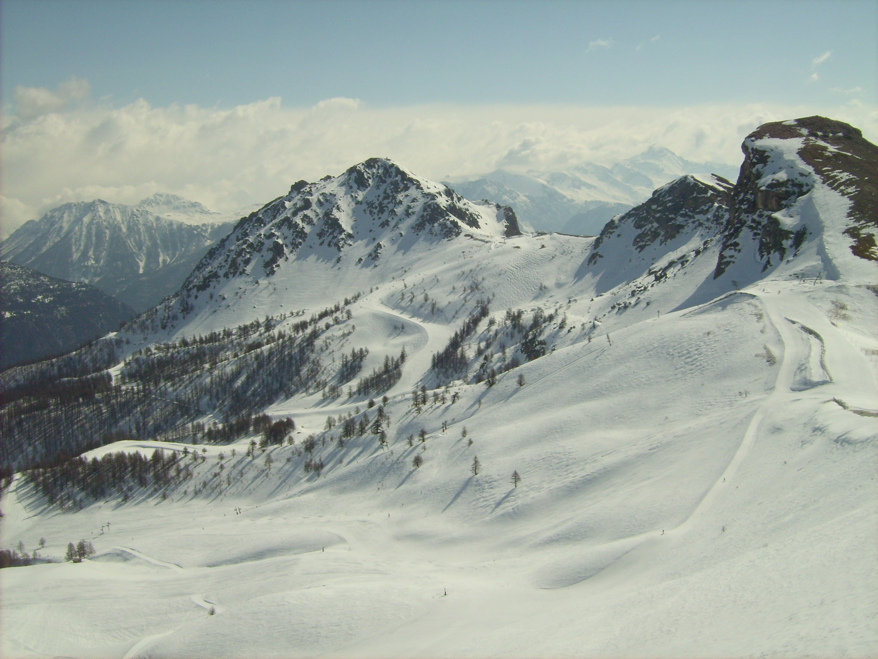 Prorel, Serre-Chevalier, Hautes-Alpes, France